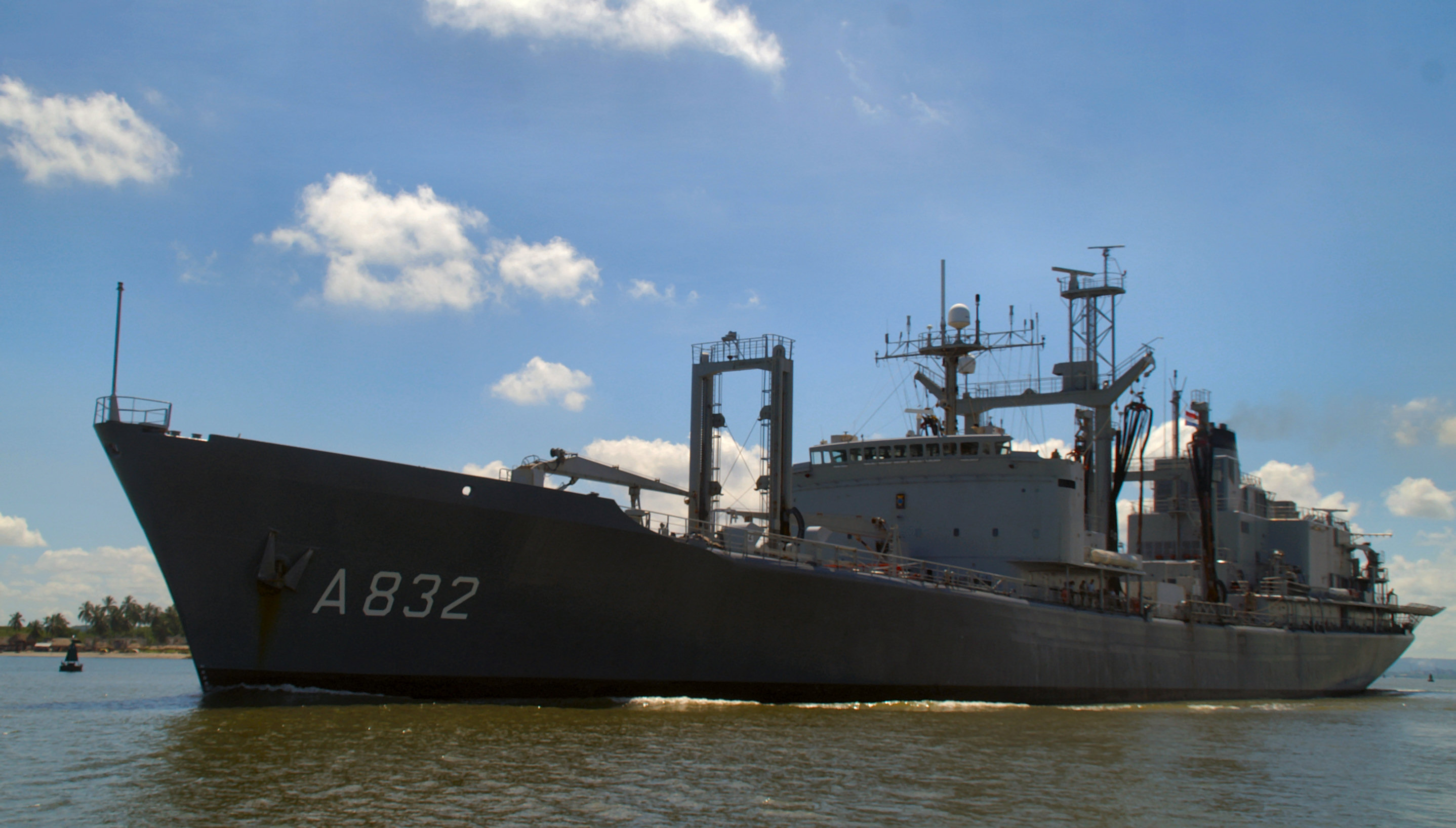 Photo taken by uploader in the harbor of Cartagena, Colombia, on 4 June 2007.